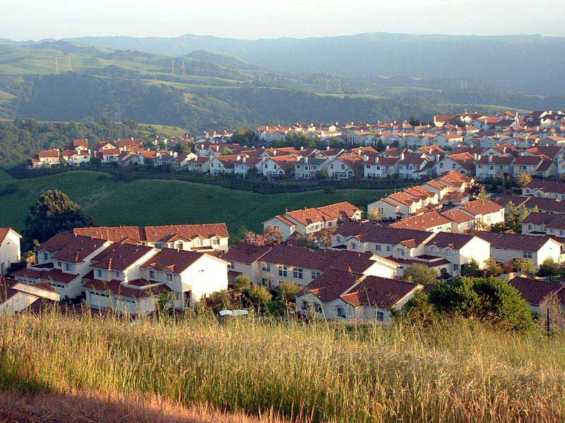 Palomares Hills looking south toward Palomares Canyon. Easter 2004